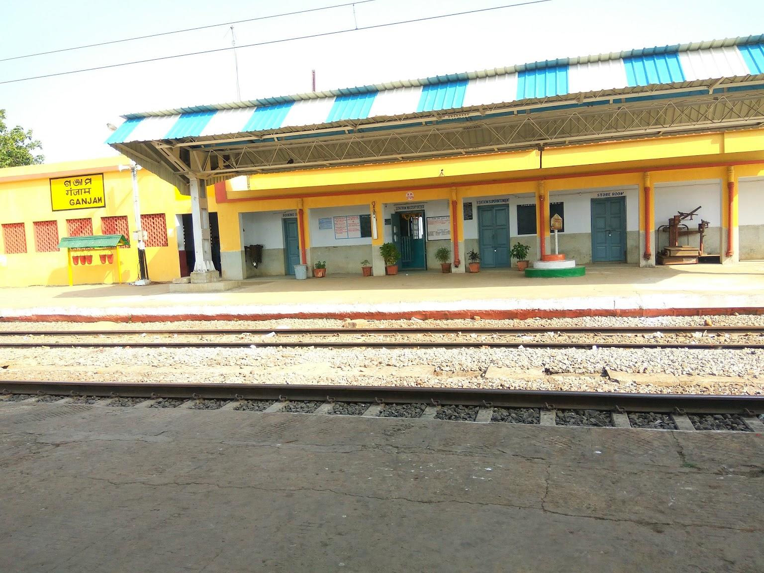 This is the Picture of Ganjam railway station